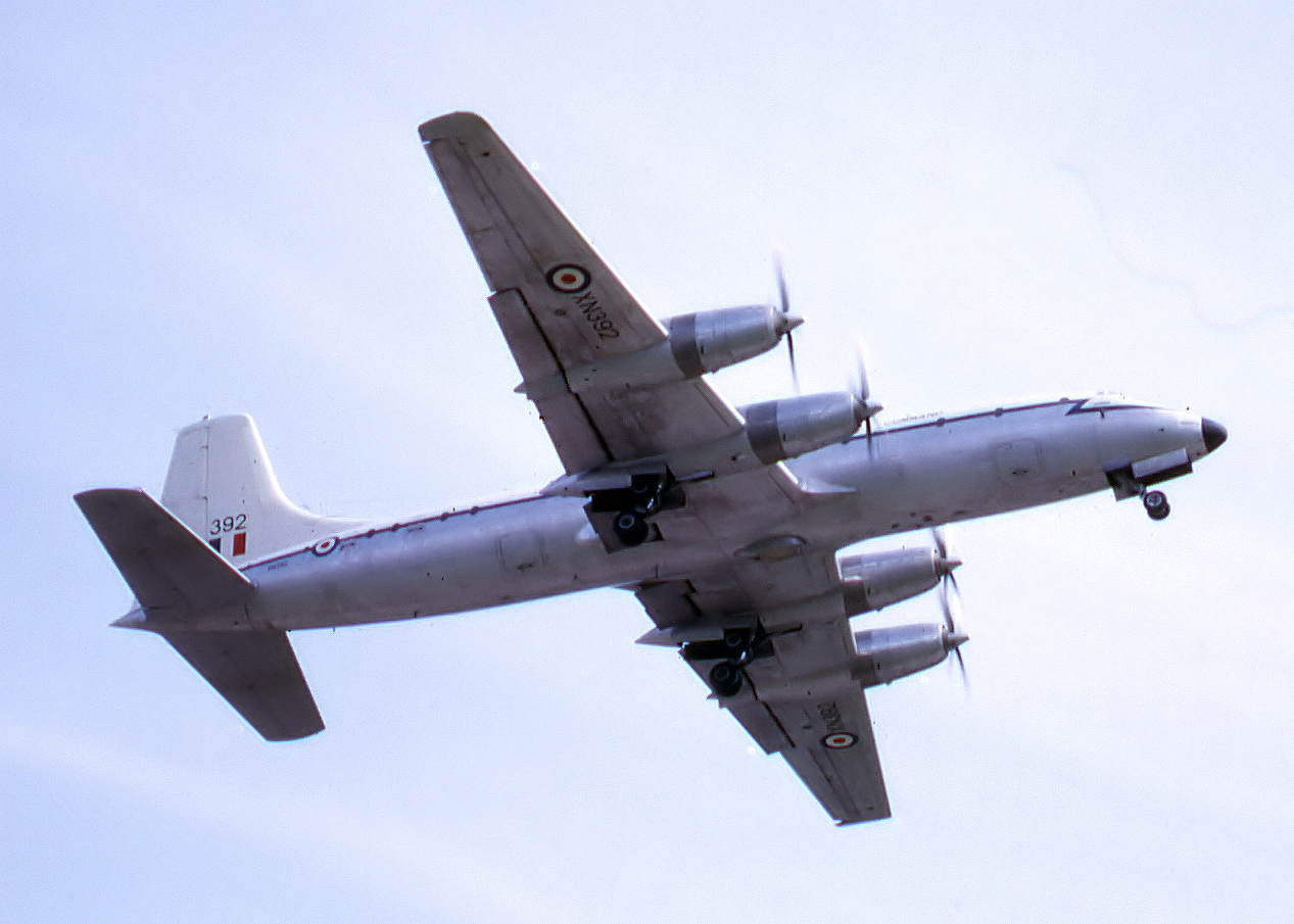 Royal Air Force Bristol Britannia “Accrux“, serial XN392 (scrapped in May 1976). apologies for the poor quality.